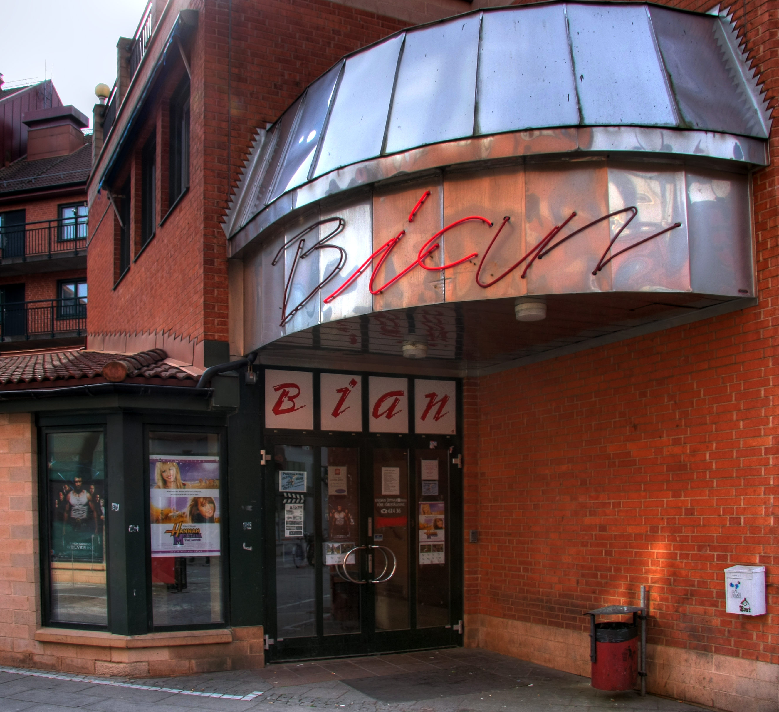 The Bian movie theater in Eslöv, Sweden